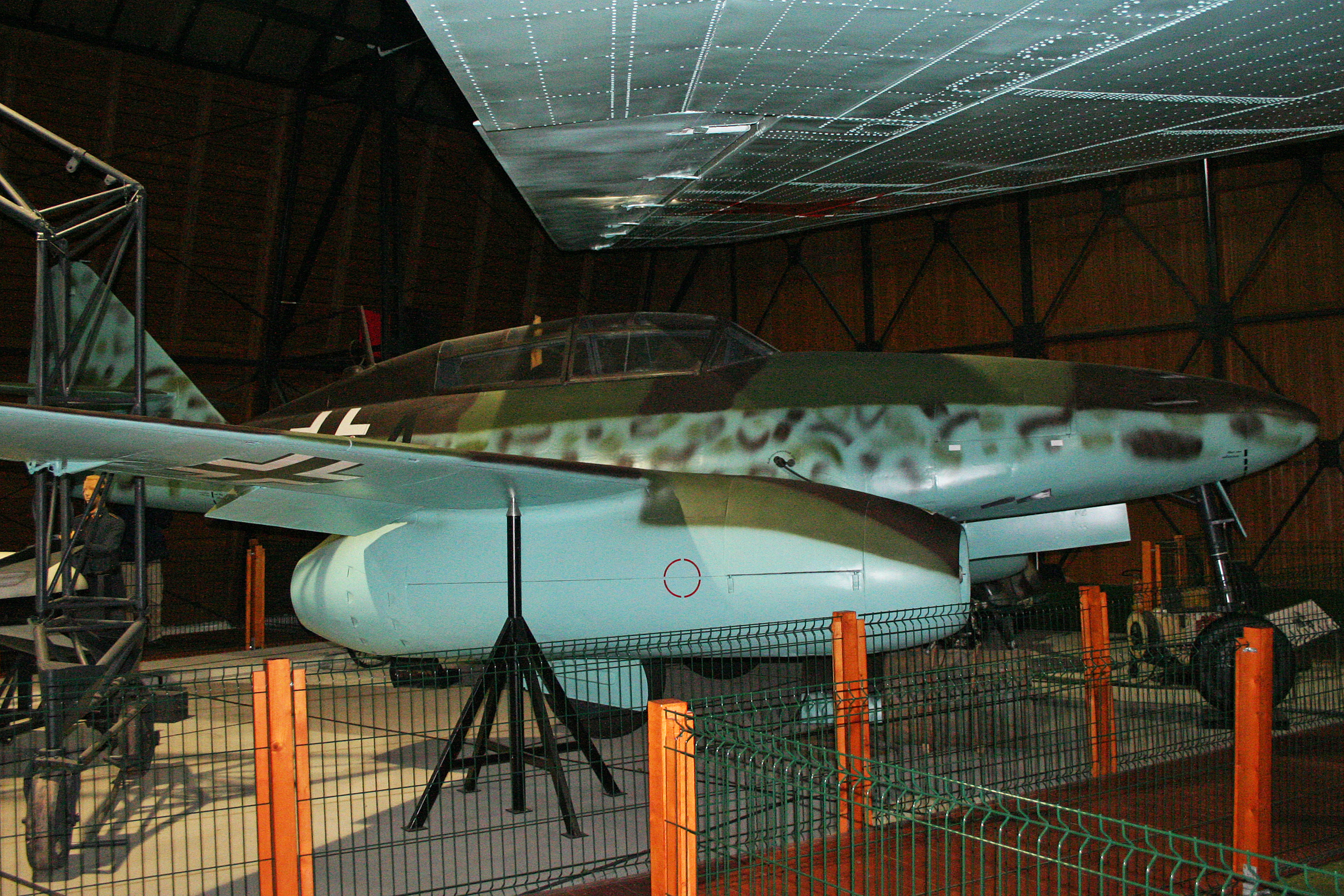 The Avia CS-92 was a license built Messerschmitt Me262B-1A. This sole remaining example has been painted in false WW2 Luftwaffe markings. It's real Czech AF serial is 'V-35' msn 51104. On display in the WW2 hangar. Kbely Museum, Czech Republic. 07-10-2012